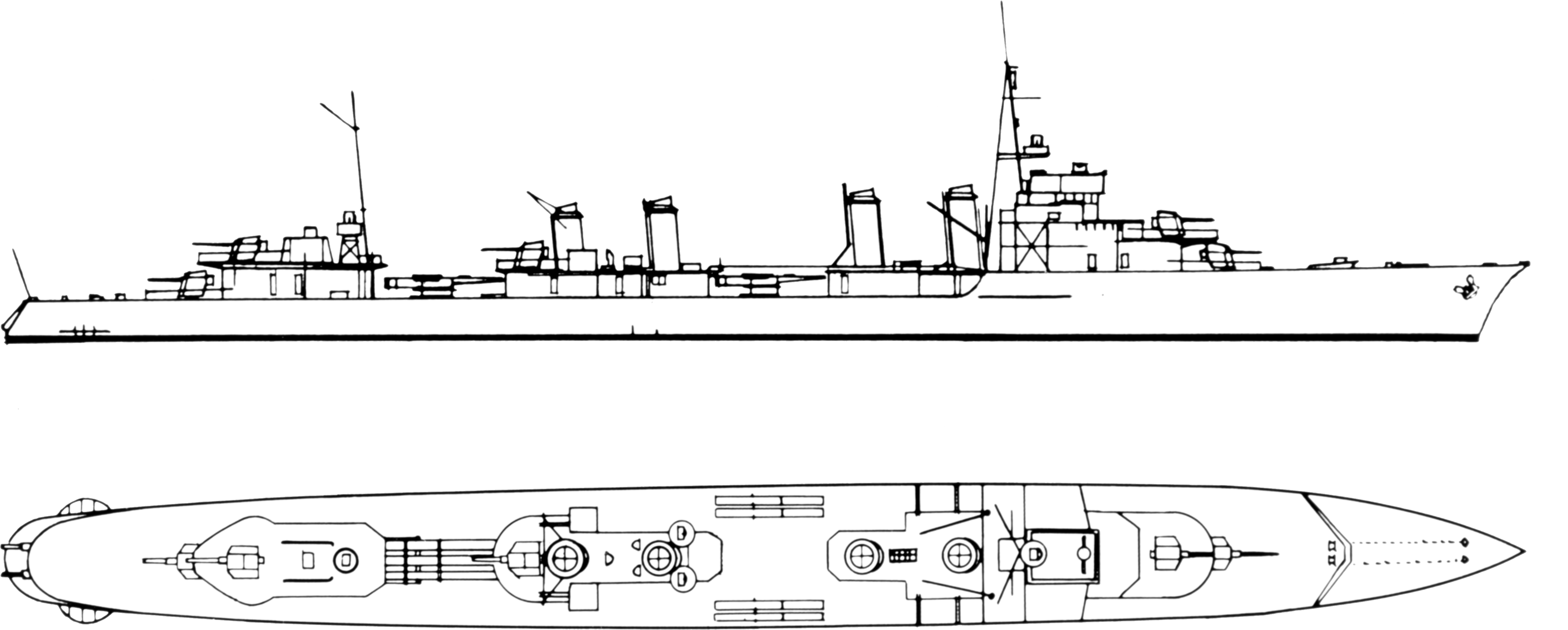 A French 2400-tonne class destroyer: Recognition and general arrangement drawings prepared circa 1940-1942 by the U.S. Navy's Office of Naval Intelligence. This is one of the later ships, with seven torpedo tubes. The original print came from the Office of Naval Intelligence.The 2400-tonne classes were the Guépard-, Aigle- and Vauquelin-classes.